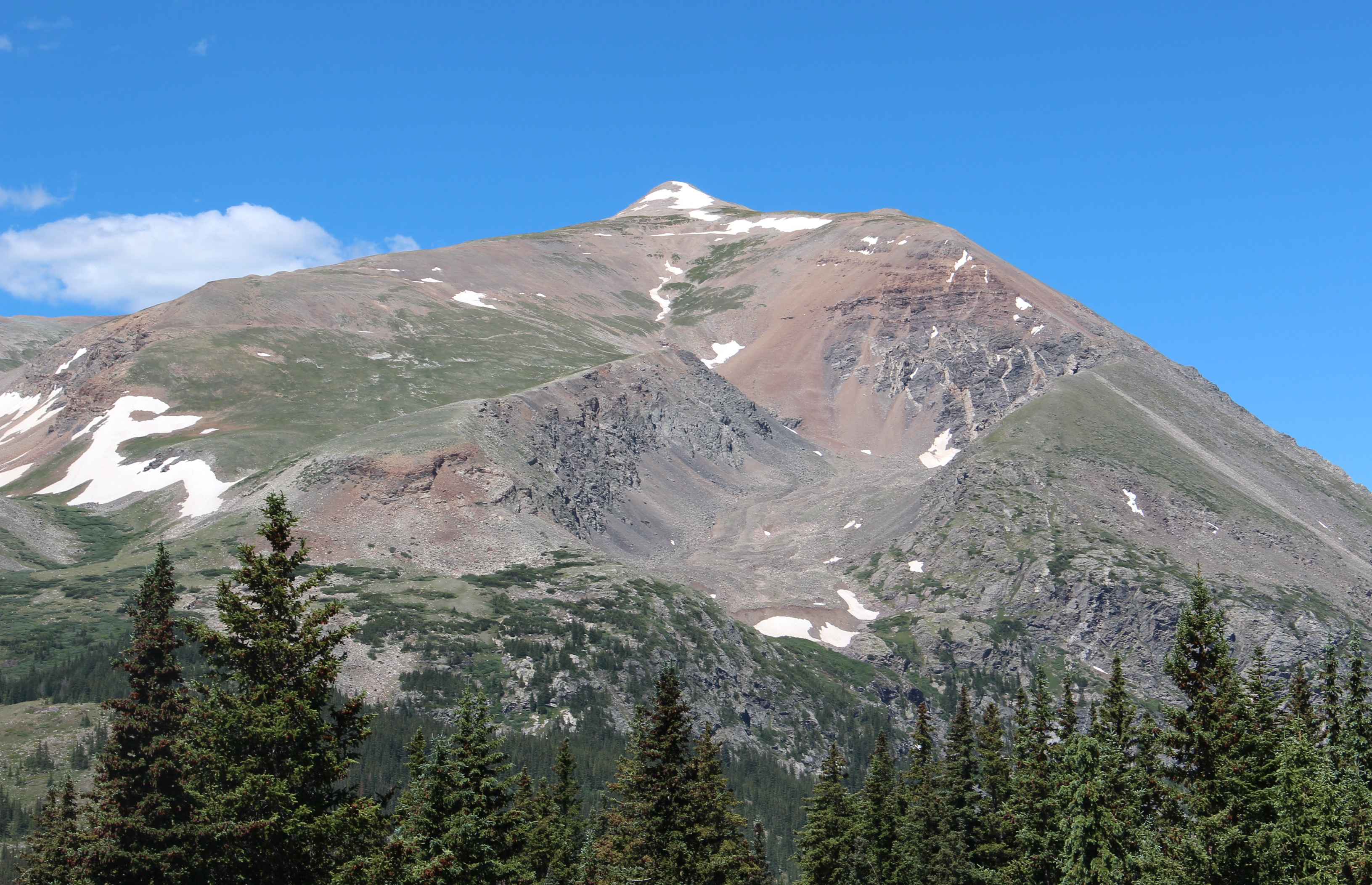 Mount Lincoln viewed from Colorado State Highway 9